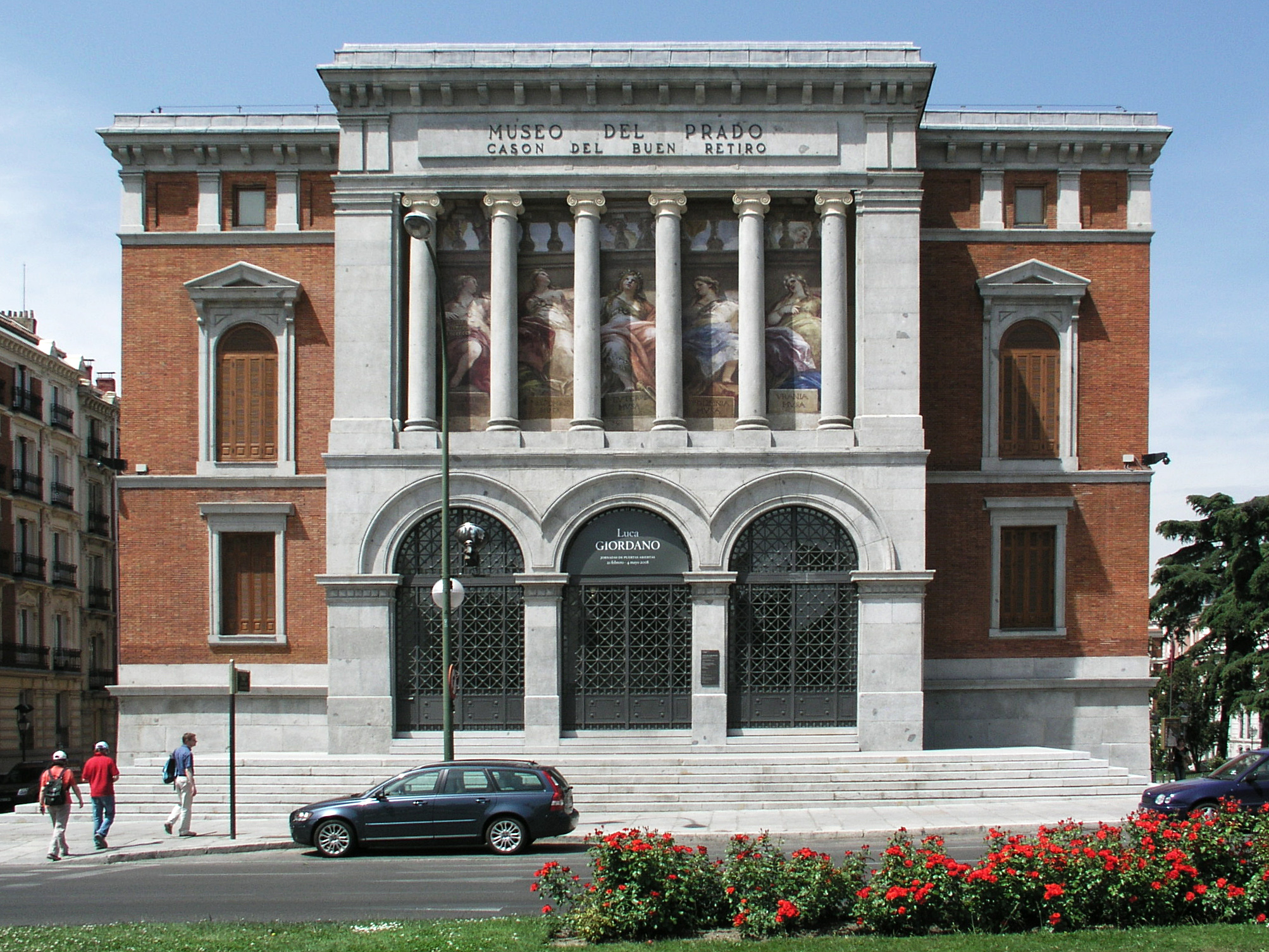 Cason del Buen Retiro, Madrid, Spain. Front side.